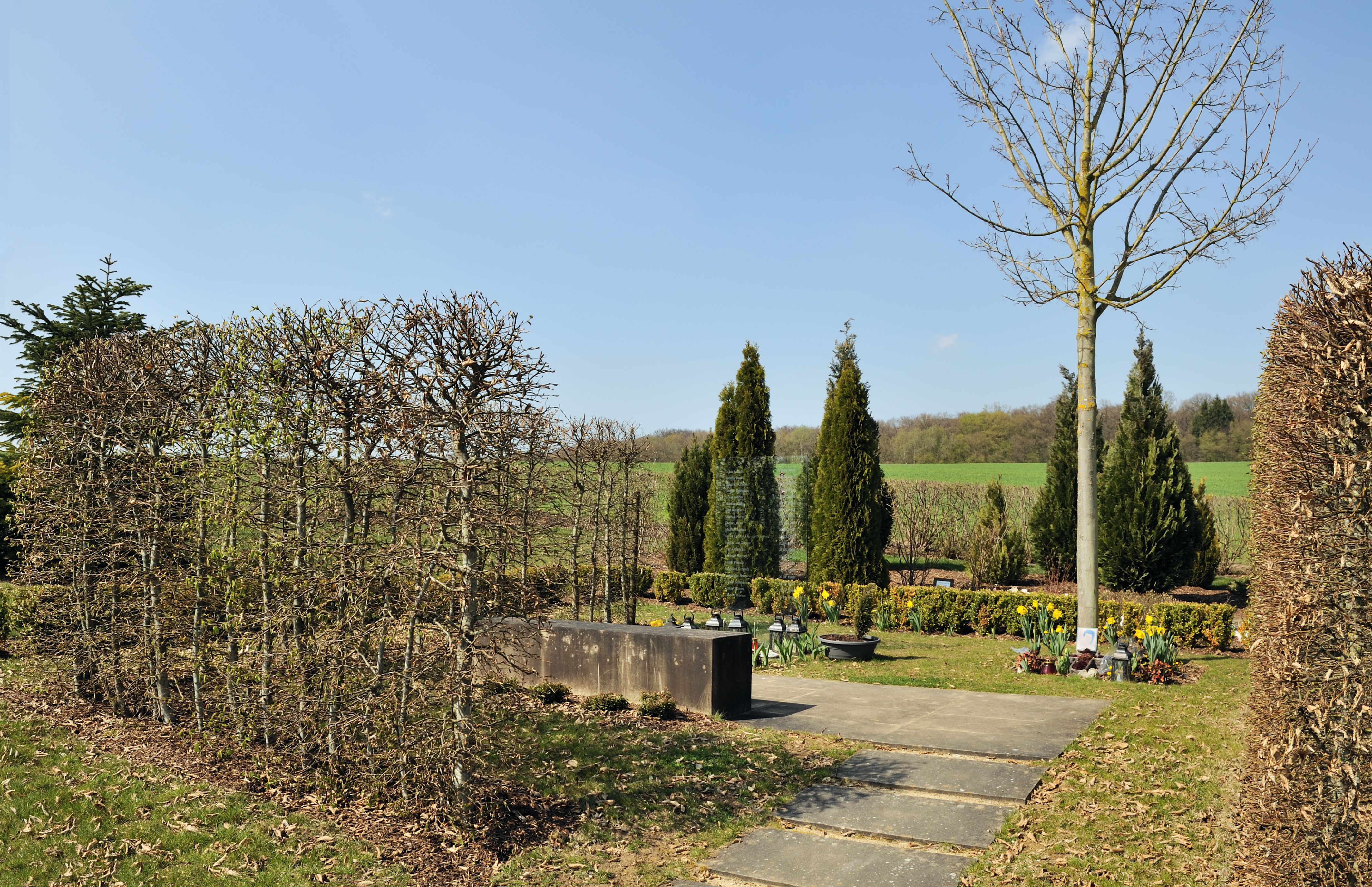 Luxembourg, Niederanven, crash site of Luxair Flight 9642 from Berlin to Luxembourg-Findel on 6 November 2002: Memorial commemorating the 20 victims of the crash (18 passengers and 2 crew members).